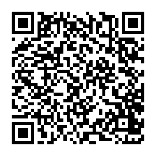 This QR code enabled the payment of 1 € to the Red Cross